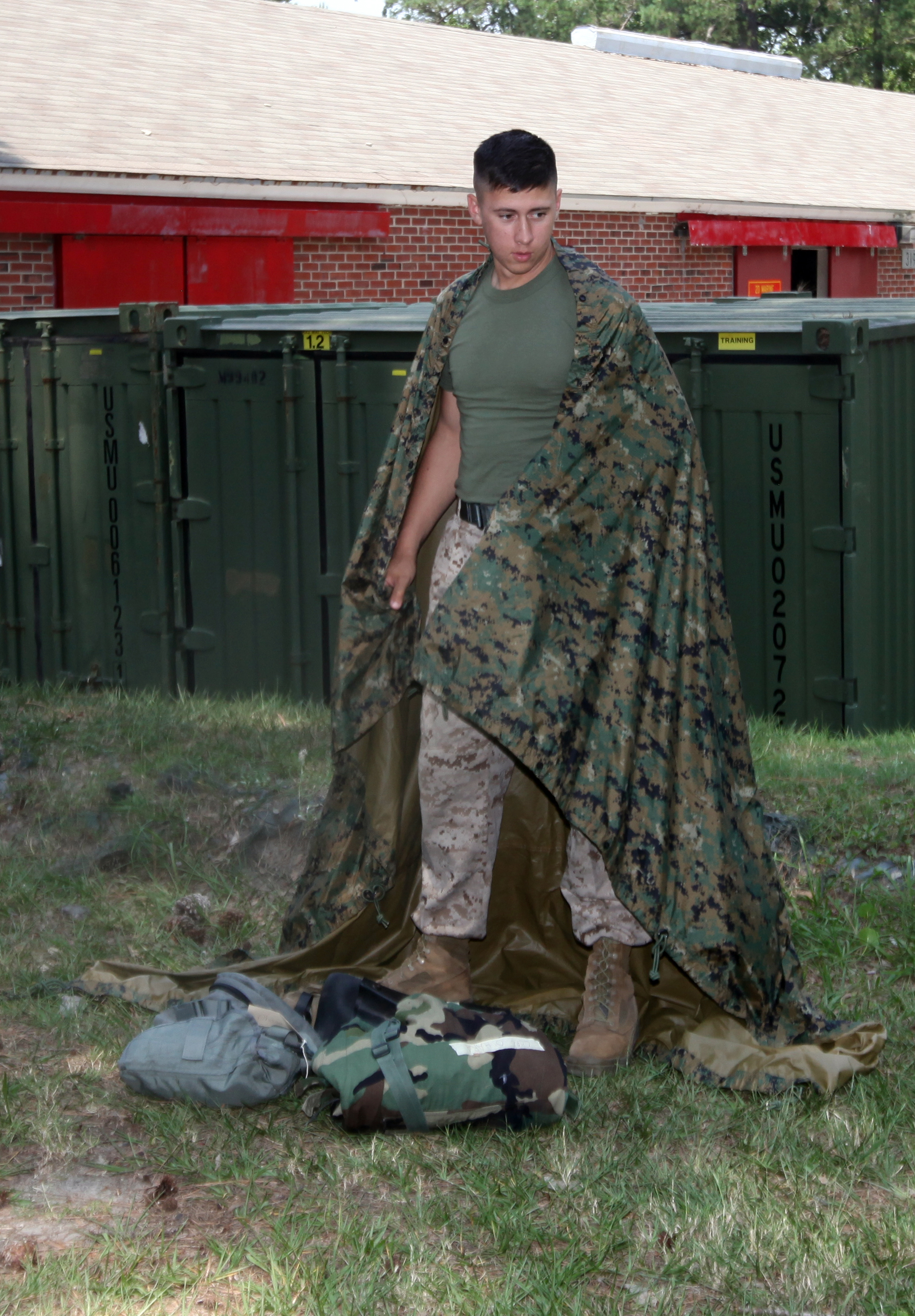 Cpl. Tyler Jones, a chemical, biological, radiological and nuclear defense specialist with Combat Logistics Regiment 27, 2nd Marine Logistics Group, demonstrates how to take cover from a chemical agent with a poncho liner during a decontamination course aboard Camp Lejeune, N.C., June 19, 2012. The purpose of the course is to give Marines the qualifications needed to be certified defense specialists. (U.S. Marine Corps photo by Pfc. Franklin E. Mercado)